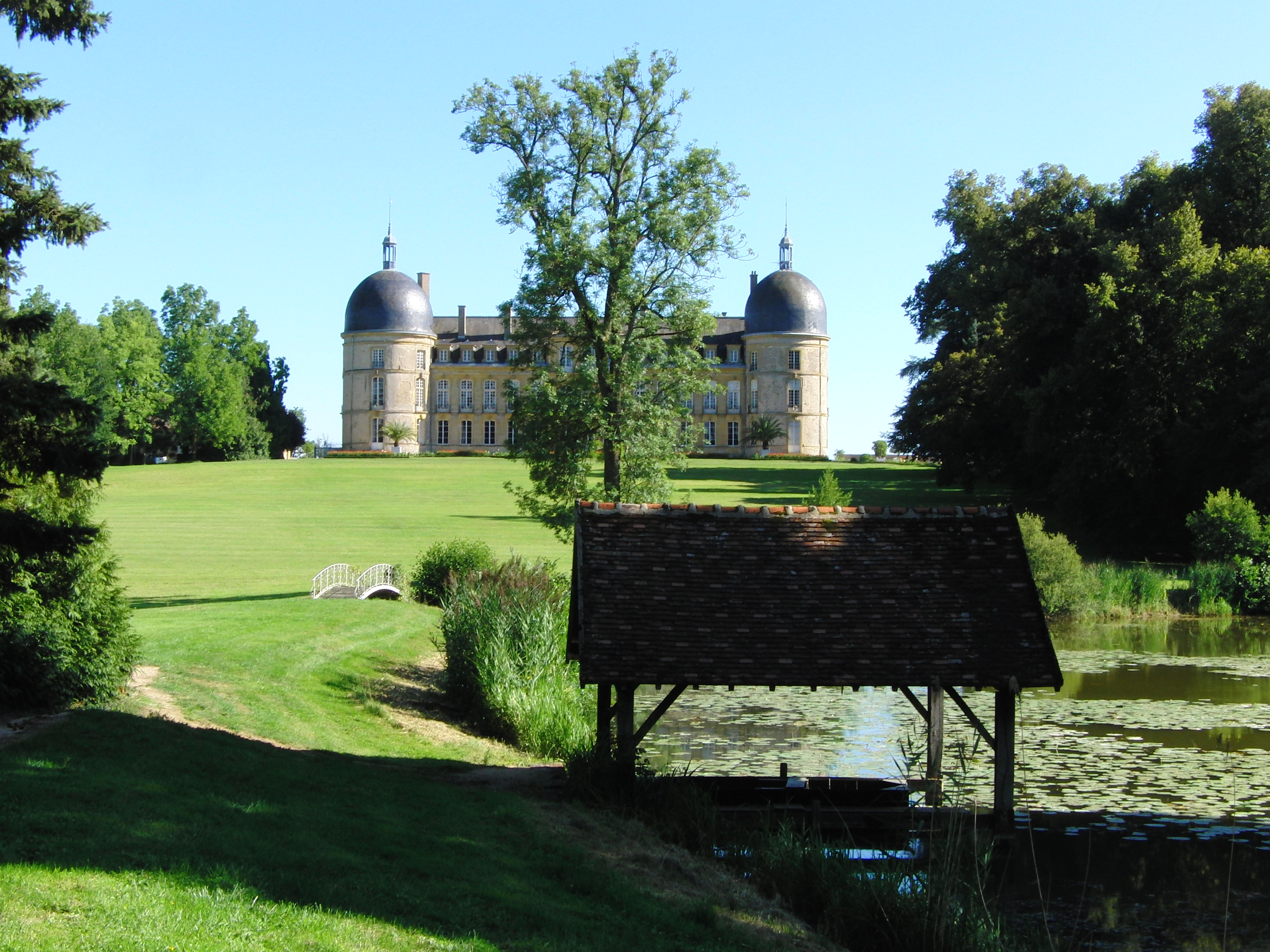 Castle of Digoine et son parc à l'anglaise, Palinges, Saône-et-Loire, France